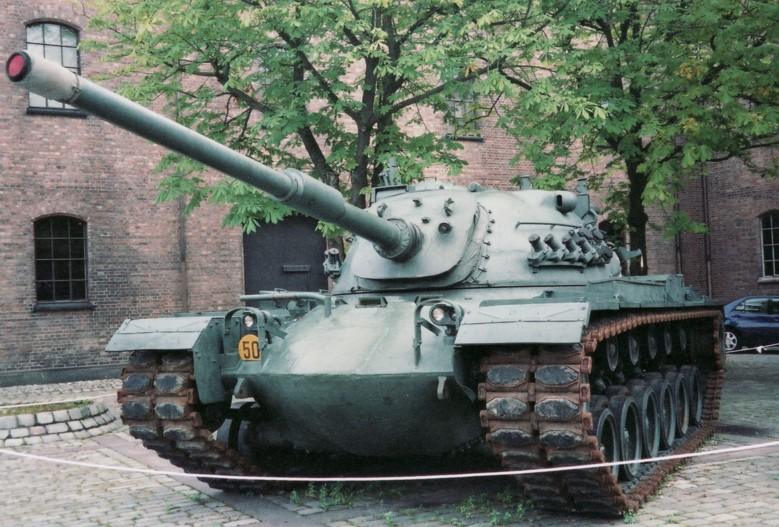 M48A5 tank used by the Norwegian Army